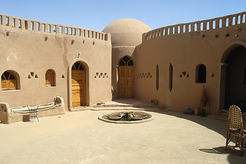 Hathor chalet at Bir el-Gebel, el-Dakhla depression, Libyan Desert, Egypt